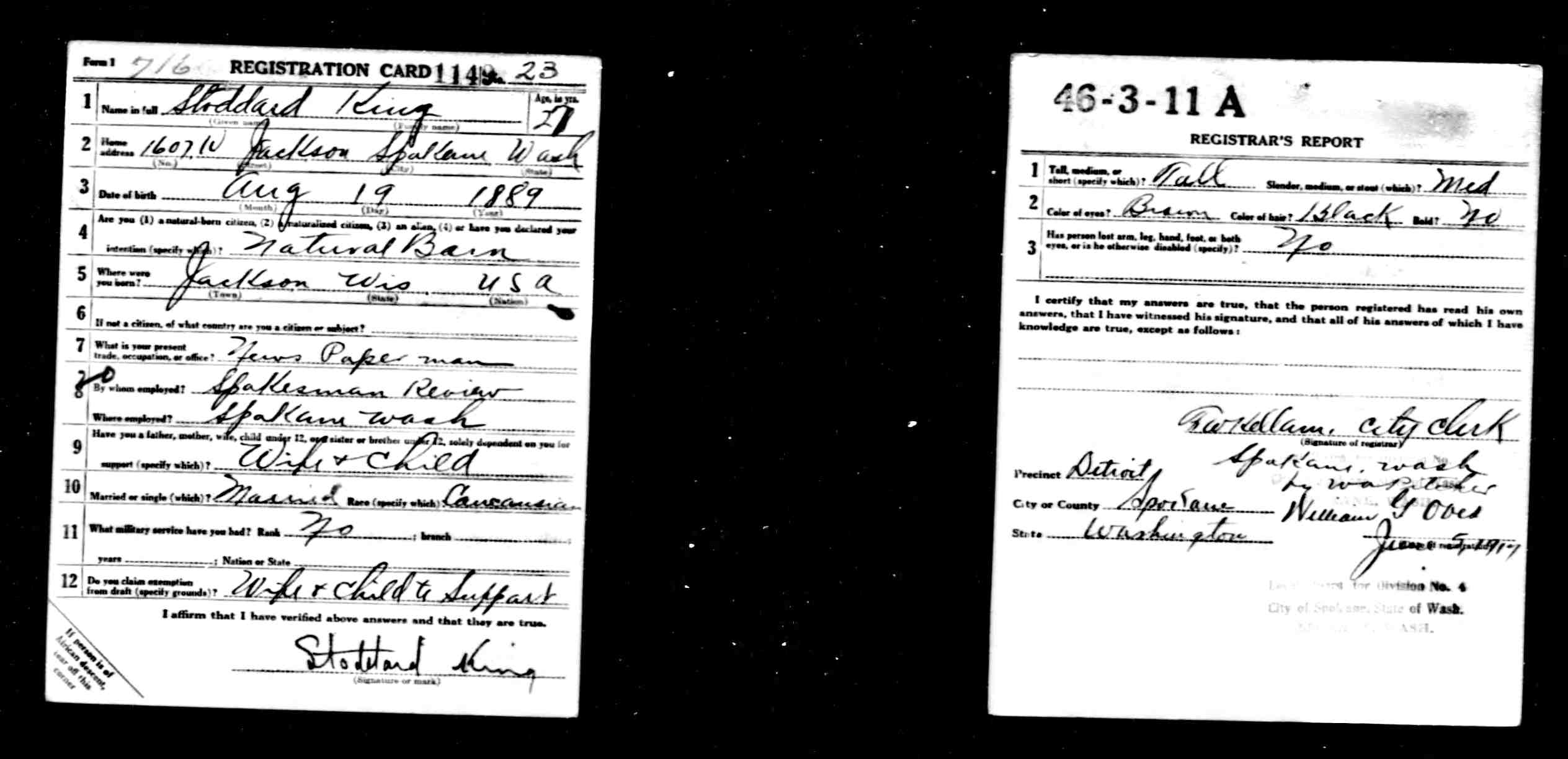 Stoddard King (1889–1933)